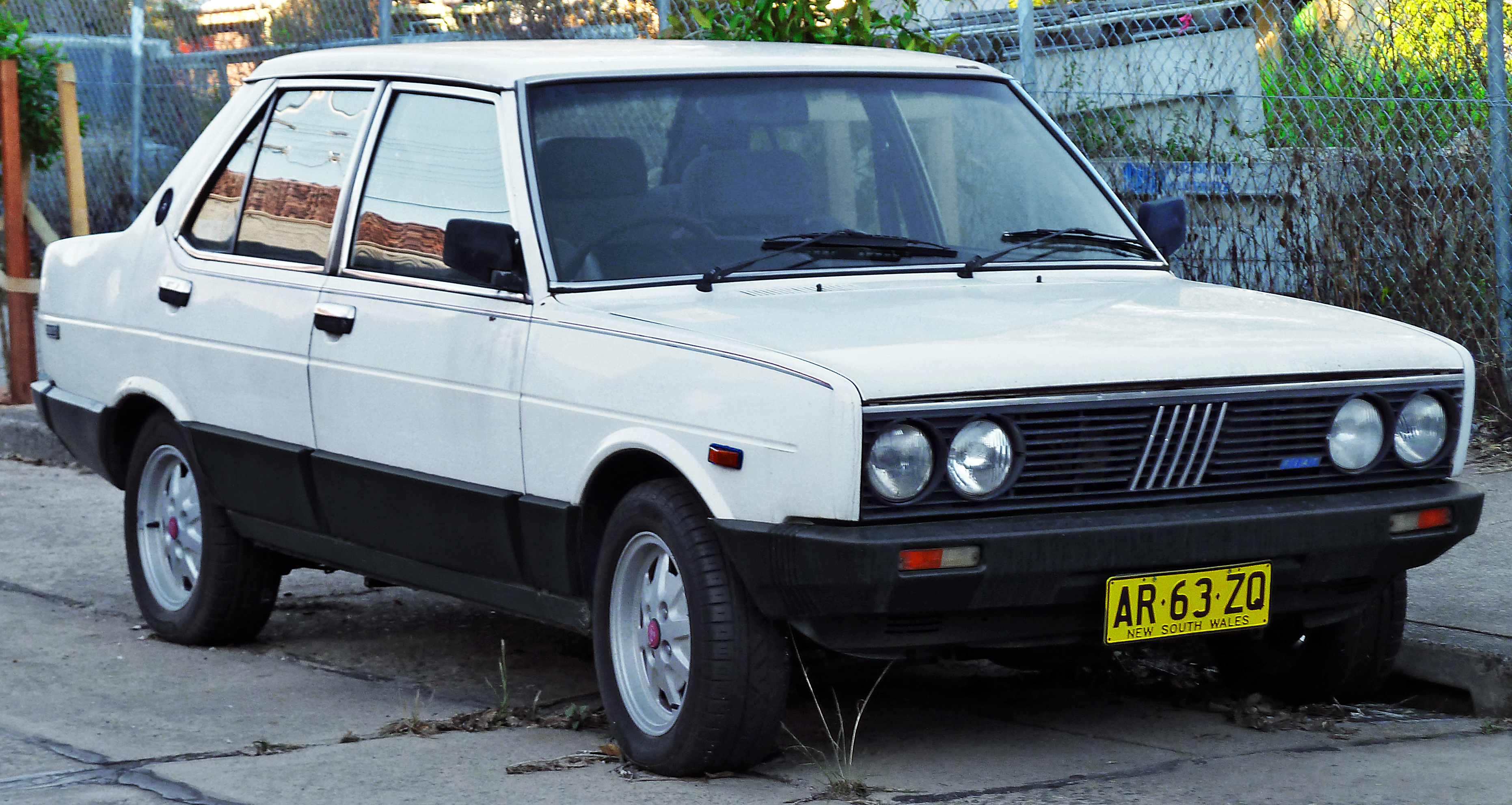 1984 Fiat 131 SuperBrava 2000 TC sedan. Photographed in Newtown, New South Wales, Australia.